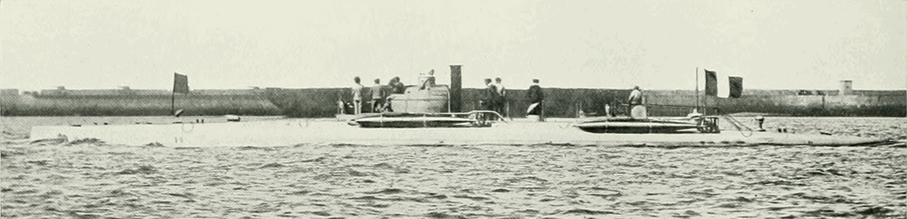 Photo of the French Submarine Narval in Page's Magazine No. 2 from 1902. That issue had an article about the developement of submarines.